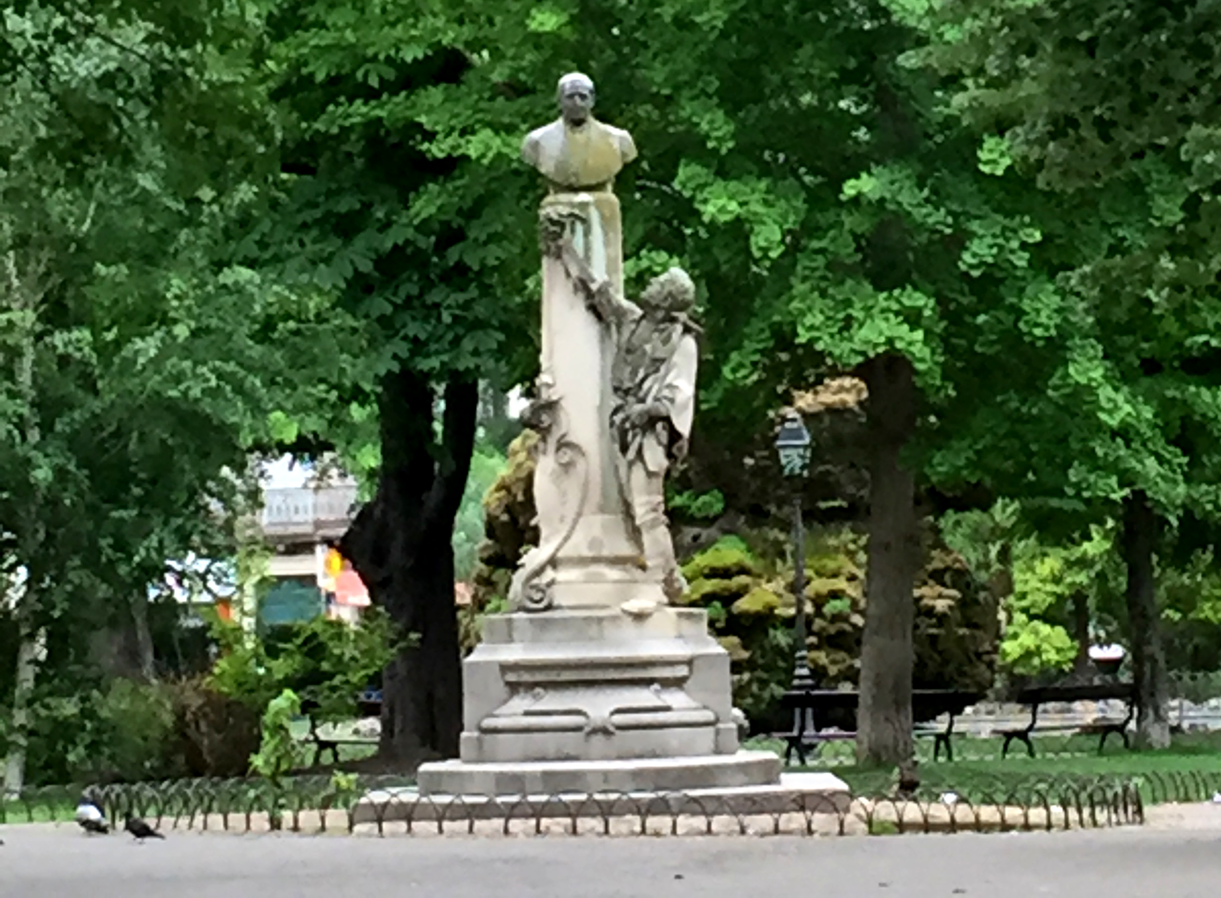 Statue of Jules Émile Planchon in the square Planchon at Montpellier (Hérault).